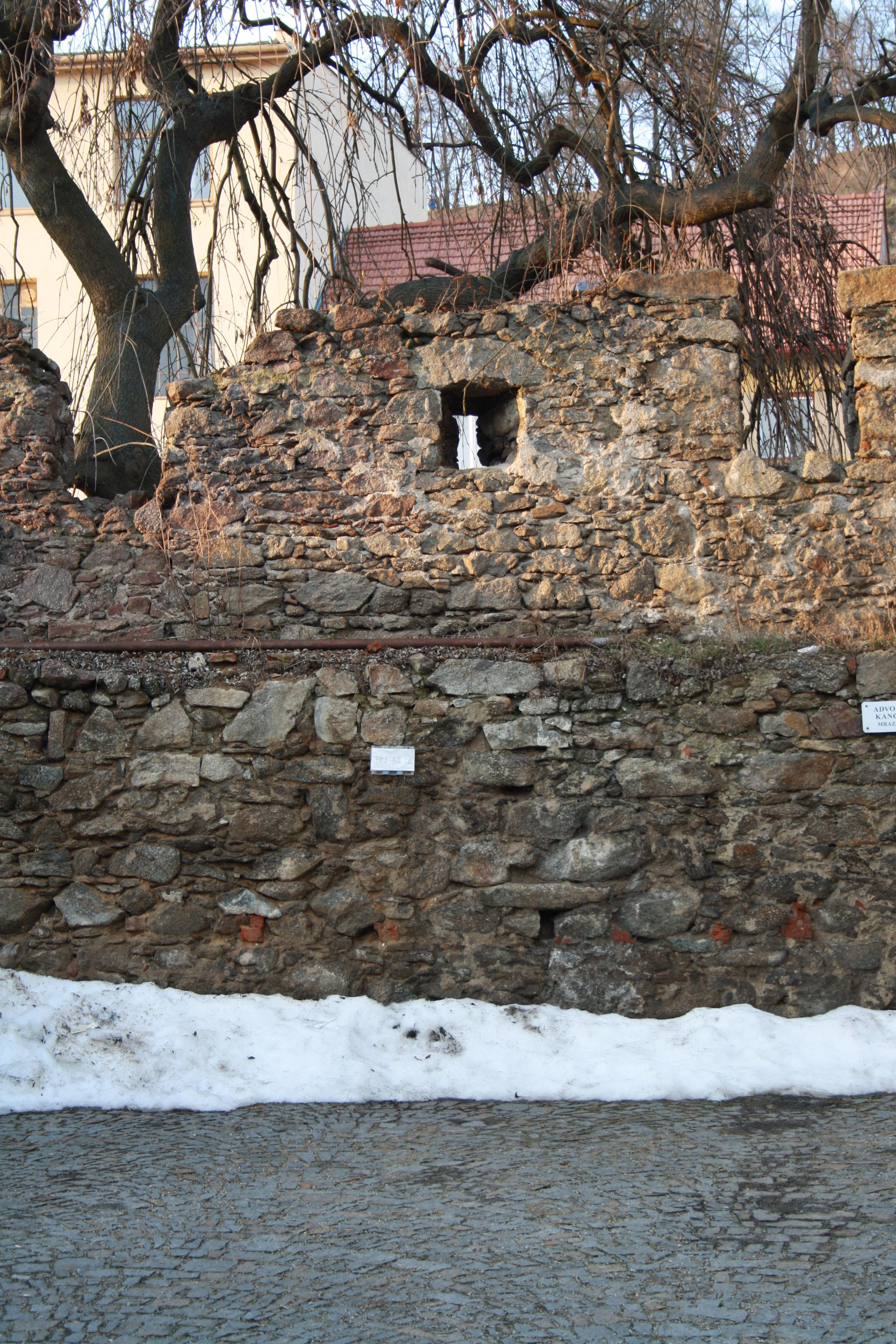 City walls (near Černý dům) of Třebíč, Czech Republic.